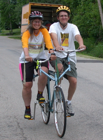 Mary Arneson: "Actually, that photo was taken by my husband, Dale Hammerschmidt. I asked him, and he has no objection to Attribution-ShareAlike use of this photo."